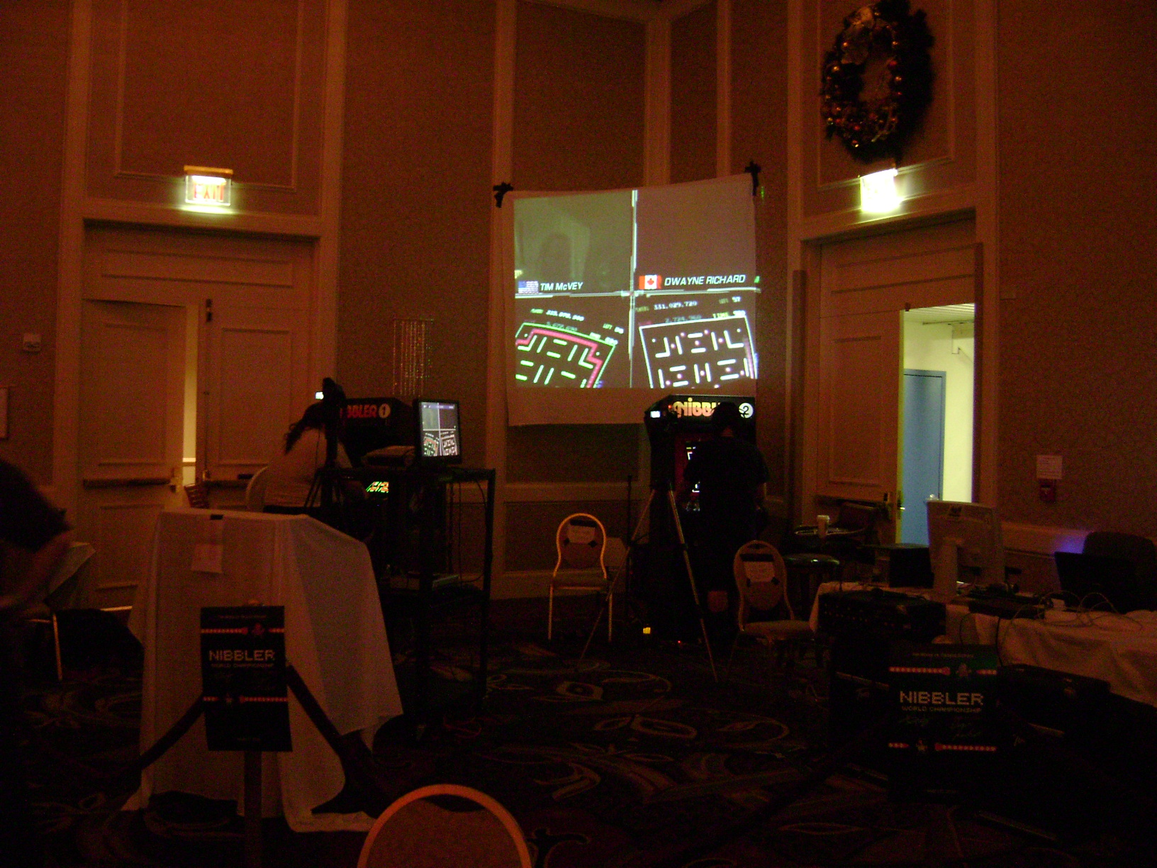 Nibbler World Record attempt at MagFest 2009